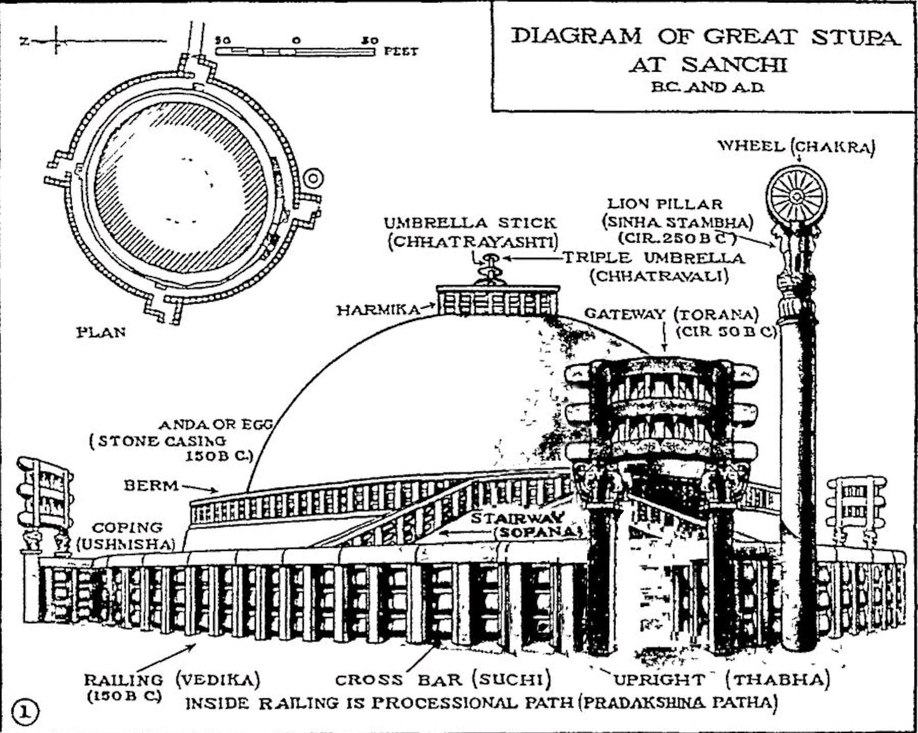 Sanchi Great Stupa diagram